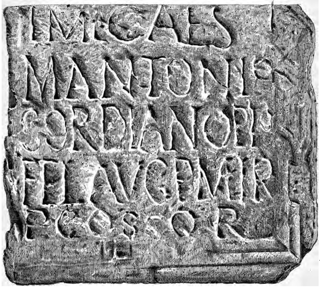 Image from the book File:Mowat - Études philologiques sur les inscriptions gallo-romaines de Rennes.djvu, page 35, first image.